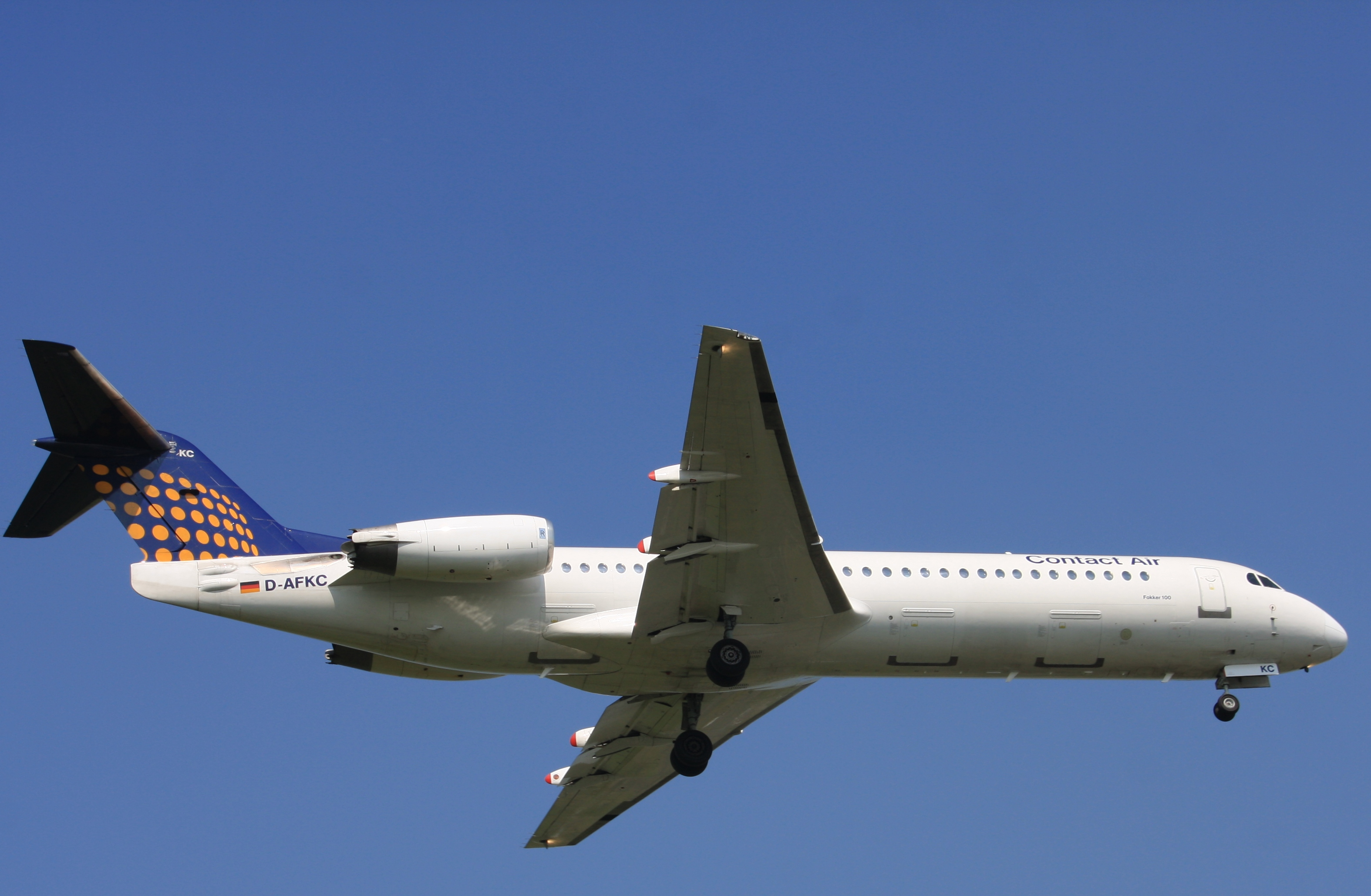 London - Heathrow (LHR / EGLL) UK - England, April 20 2011.